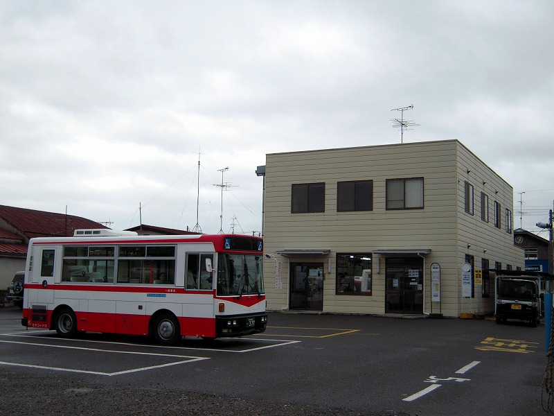 Miyakoh Bus Tsukidate Depot in Kurihara City, Miyagi Prefecture, Japan